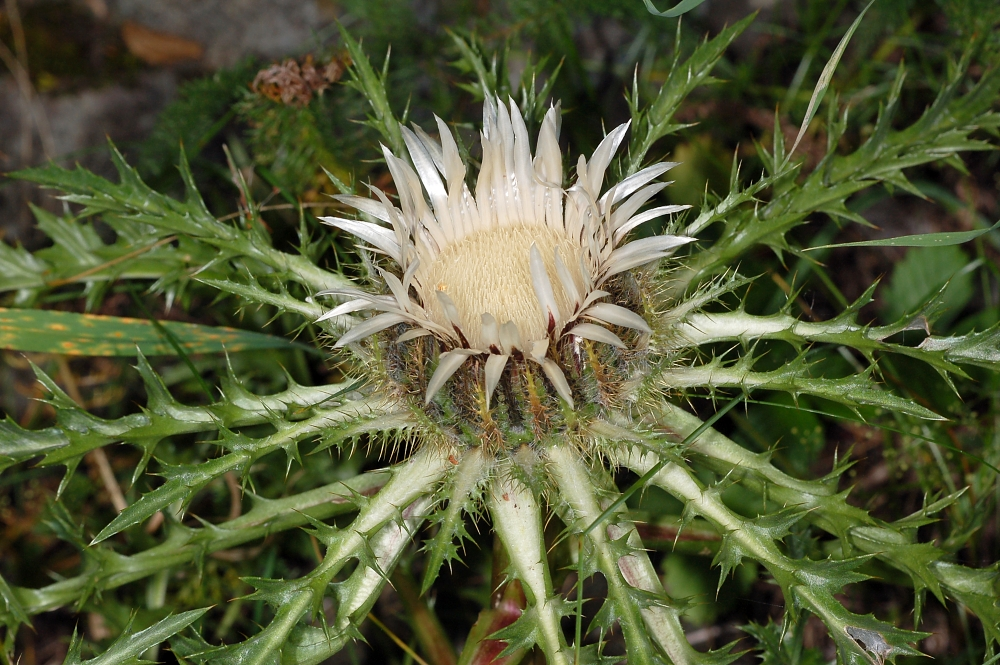 Carlina acaulis, Fiescheralp, Switzerland